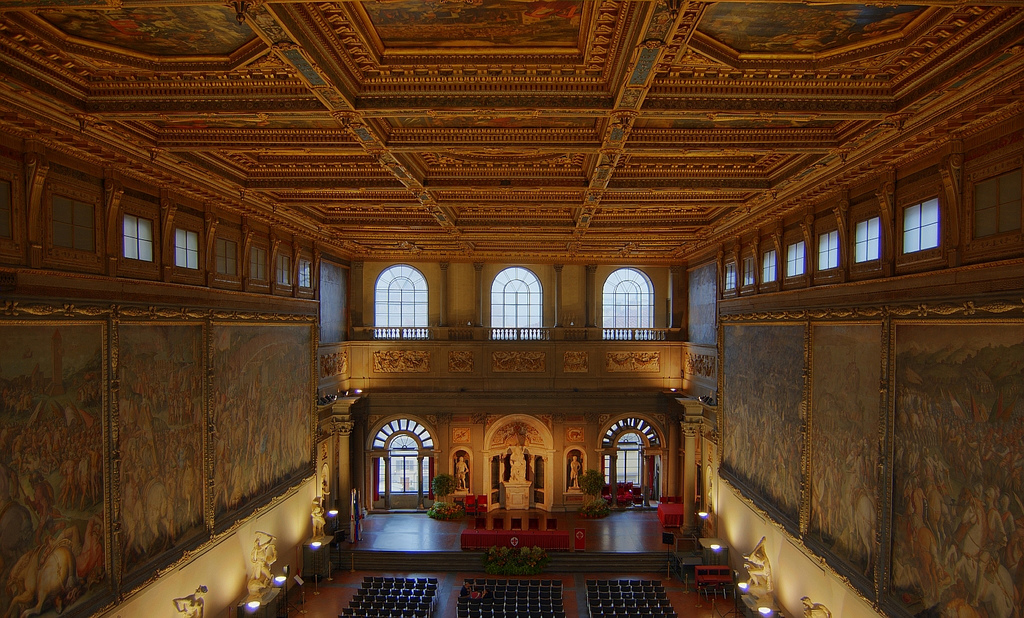 The Salone dei Cinquecento (Lounge of the five hundred), in the Palazzo Vecchio, in Florence. HDR photo composed from -1ev to +5ev at 1ev steps.